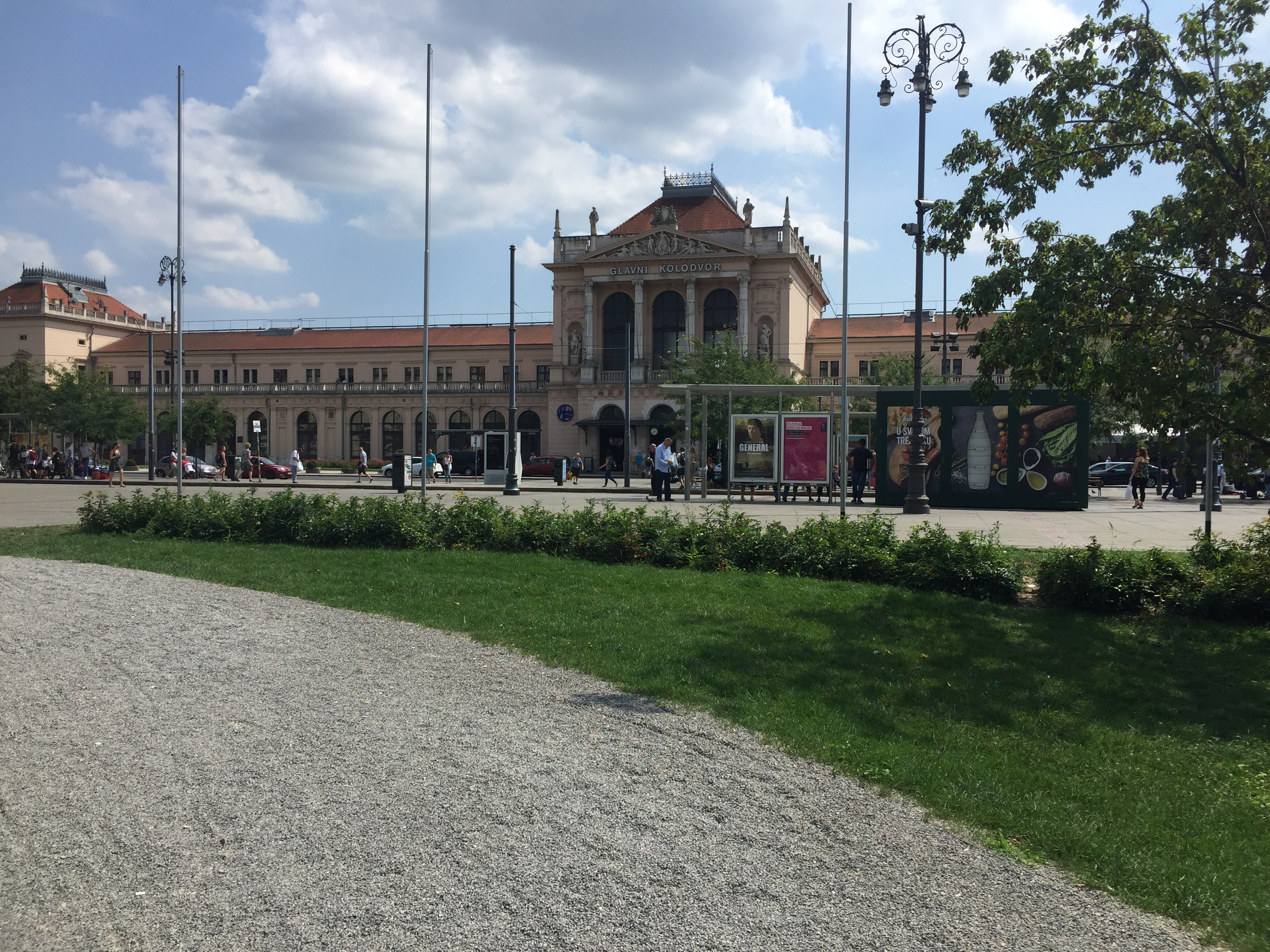 Zagreb Main Railway Station, August 2019.